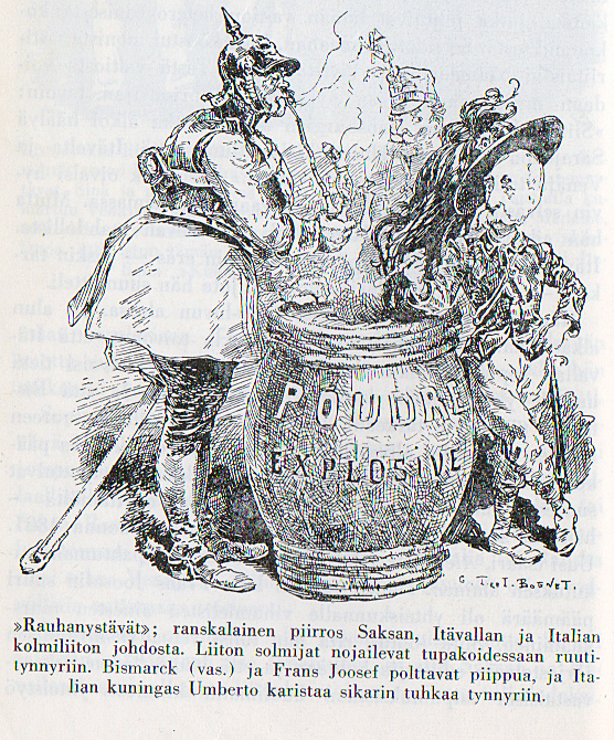 emperor, king and prime minister are smoking at a gunpowder barrel